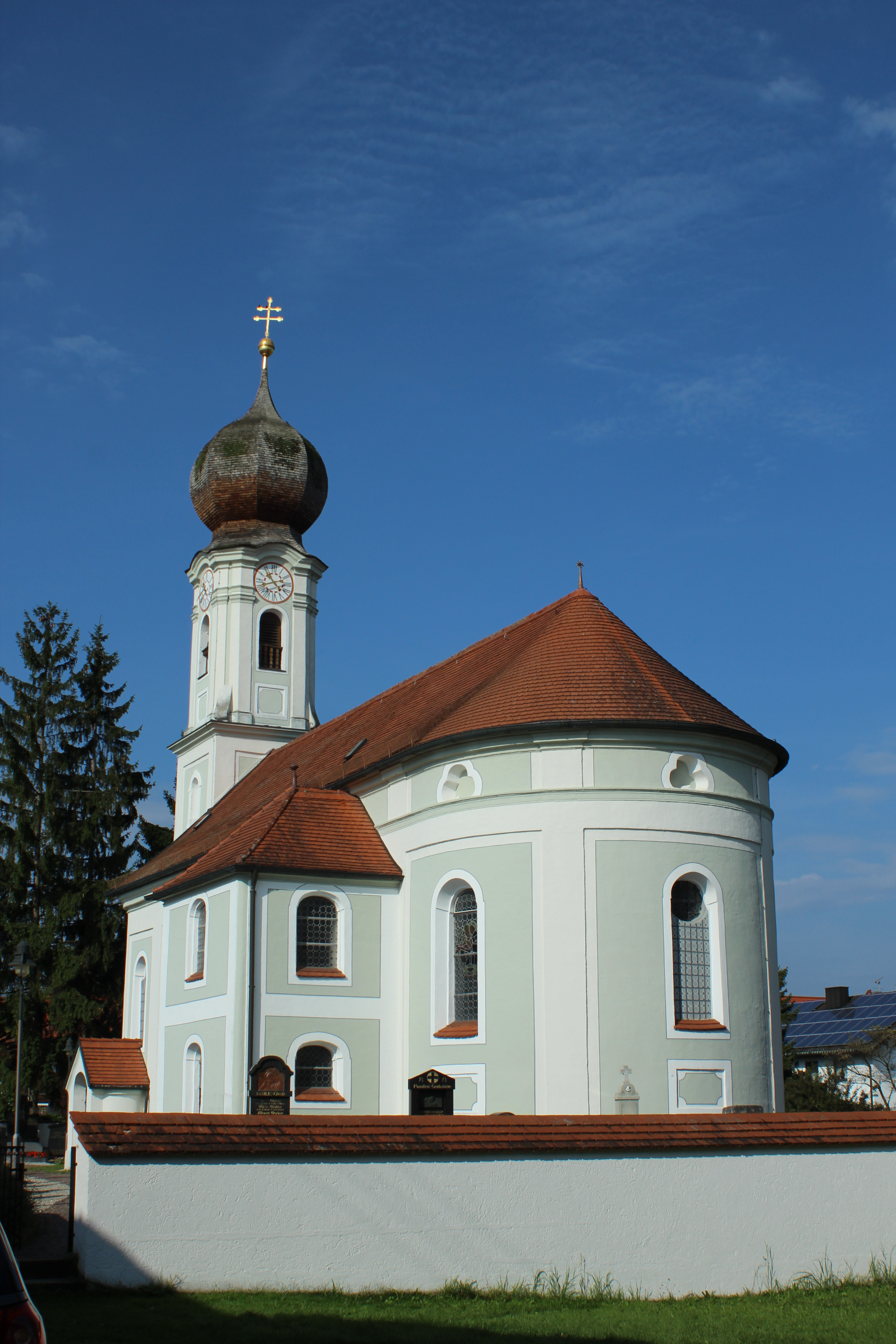 Catholic Church St. Stephan in Landsham near Pliening